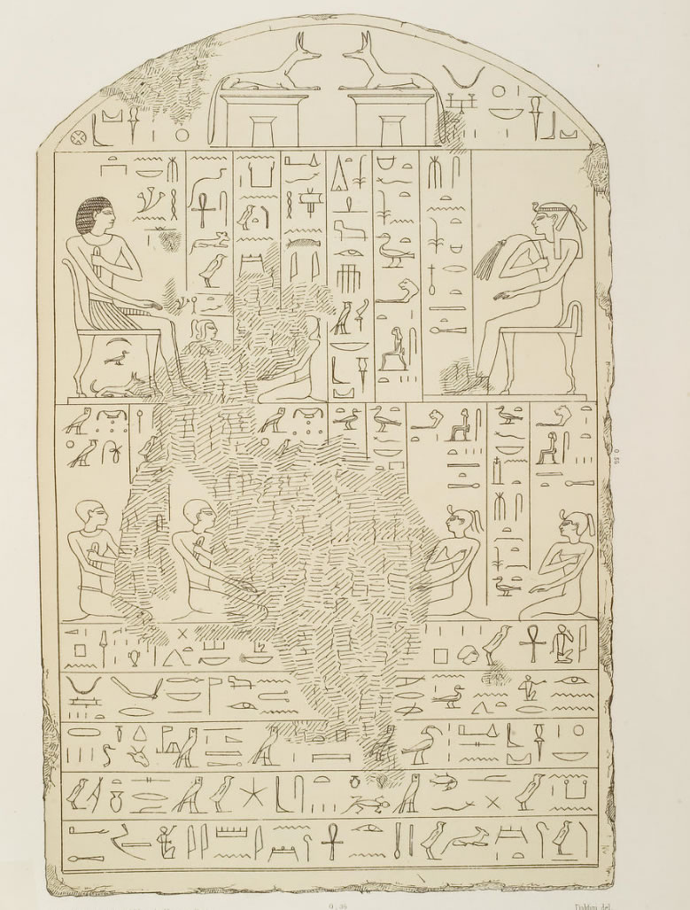 Stela, Cairo Museum CG 20394, found at Abydos; 13th Dynasty of Ancient Egypt